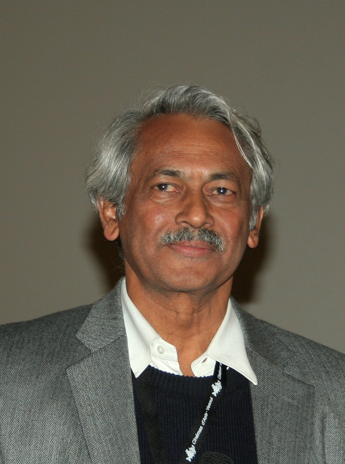 Girish Kasaravalli presenting Riding the Dream at 17th FICA in Vesoul